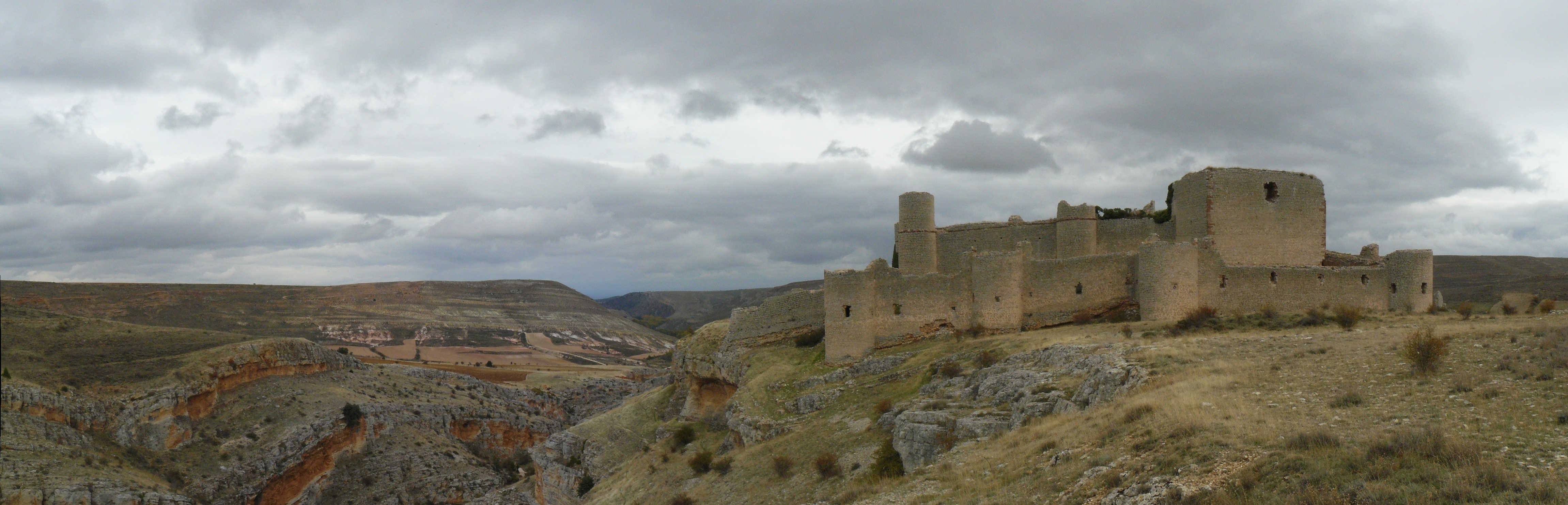 Castle at Caracena, Soria (Spain) as seen from the West.